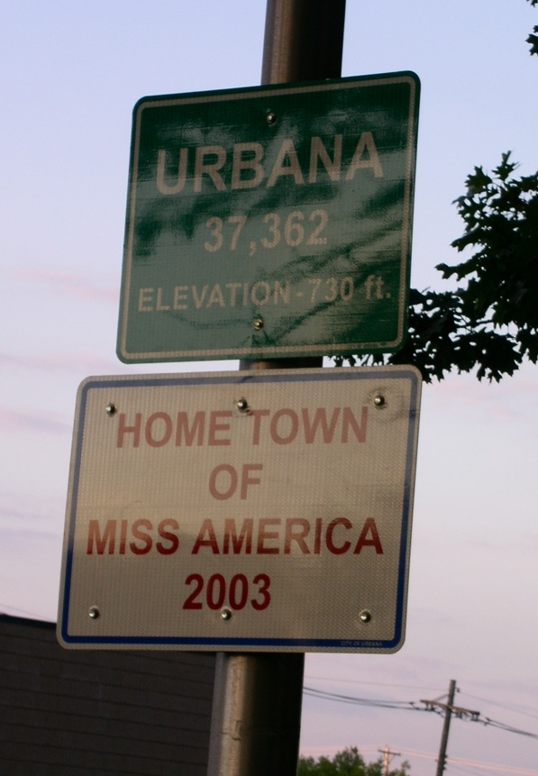 A sign for Urbana, Illinois honouring Erika Harold, Miss America 2003